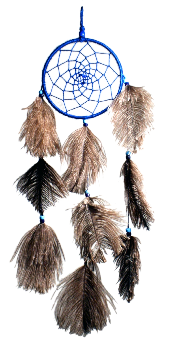 Dreamcatcher